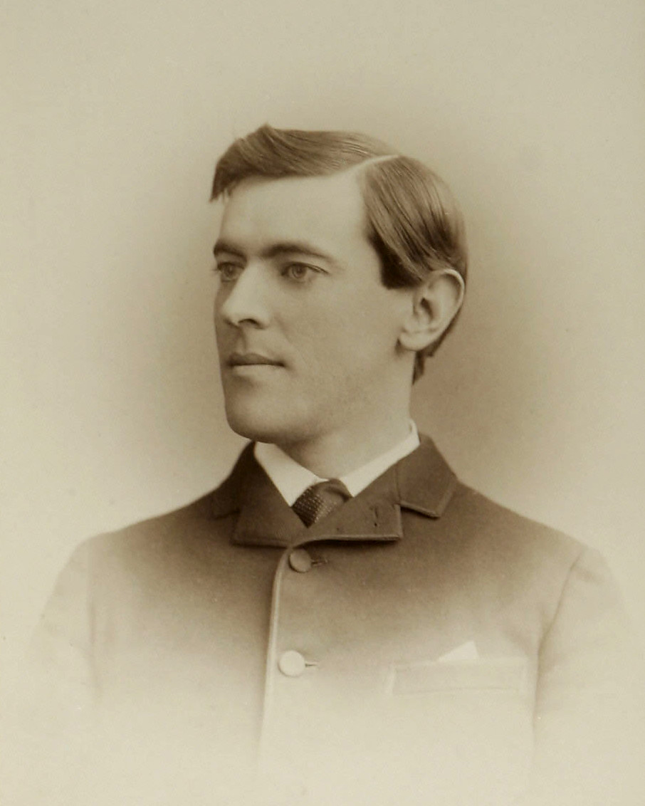 Portrait photograph of Woodrow Wilson